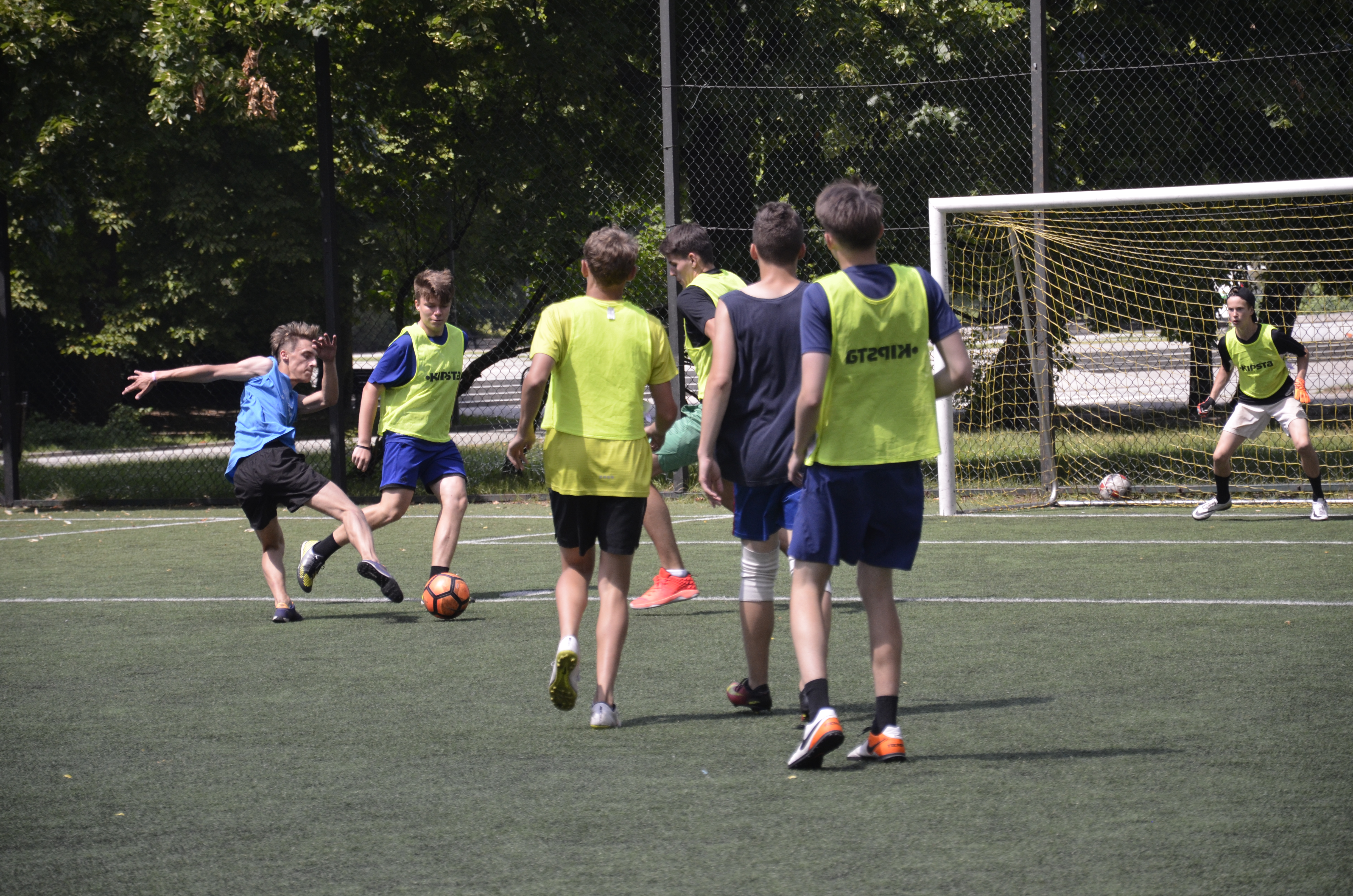 Sport day 2018 - LXXV Highschool in Warsaw